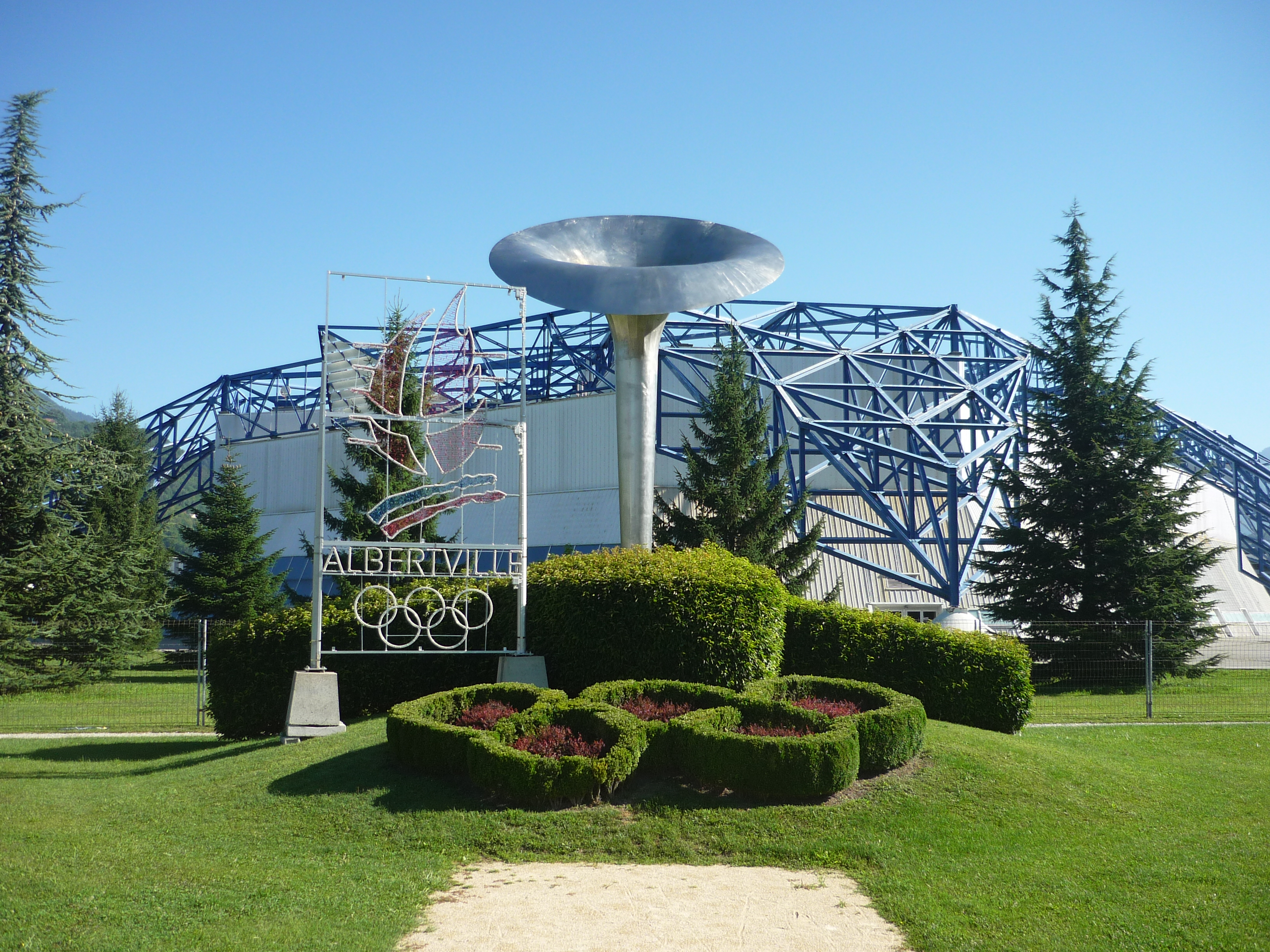 The Halle olympique and the olympic flamme cauldron of the 1992 Winter Olympics, Albertville, Savoie, France